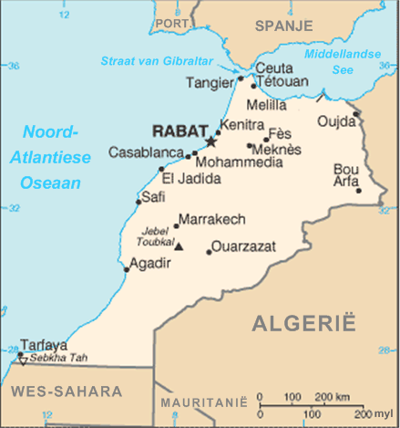 An Afrikaans map of Morocco.